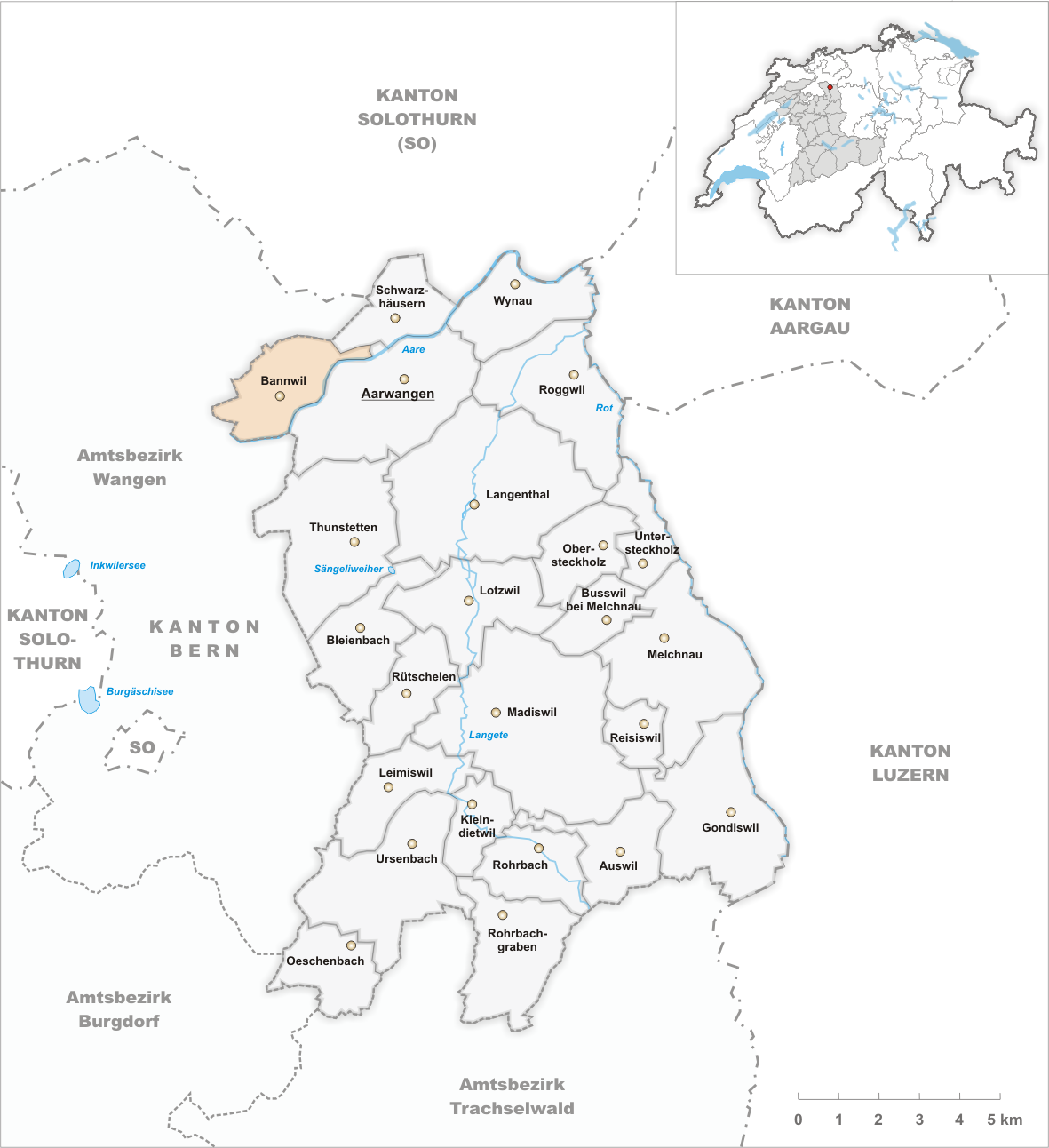 Municipality Bannwil